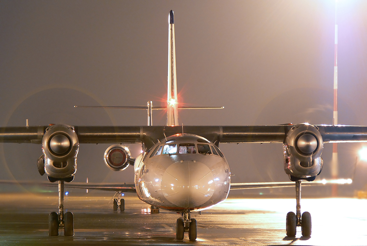 "Aeroflot Nord" An-24